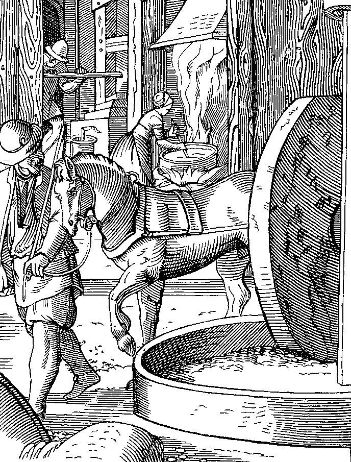 The Manufacture of Oil, drawn and engraved by J. Amman in the Sixteenth Century.